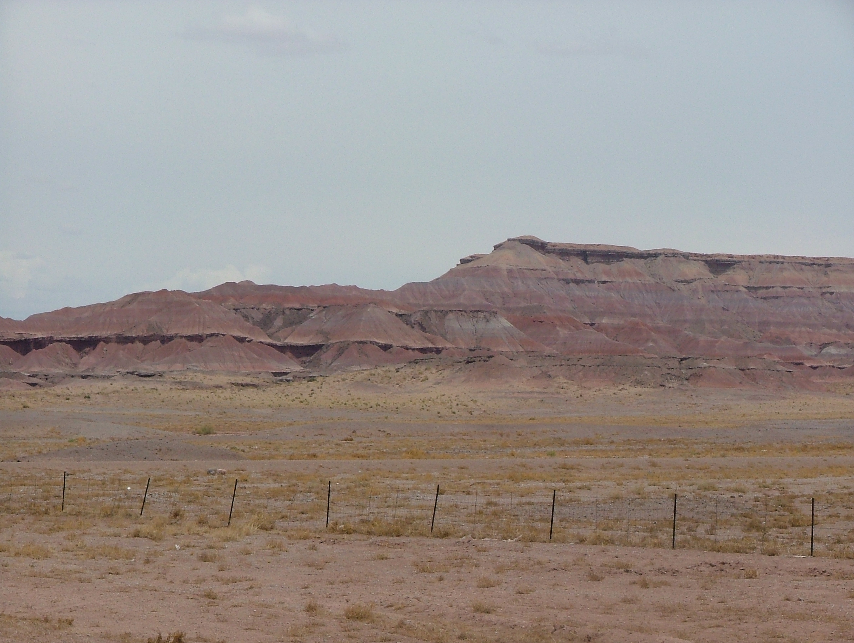 Painted Dessert near Route 66